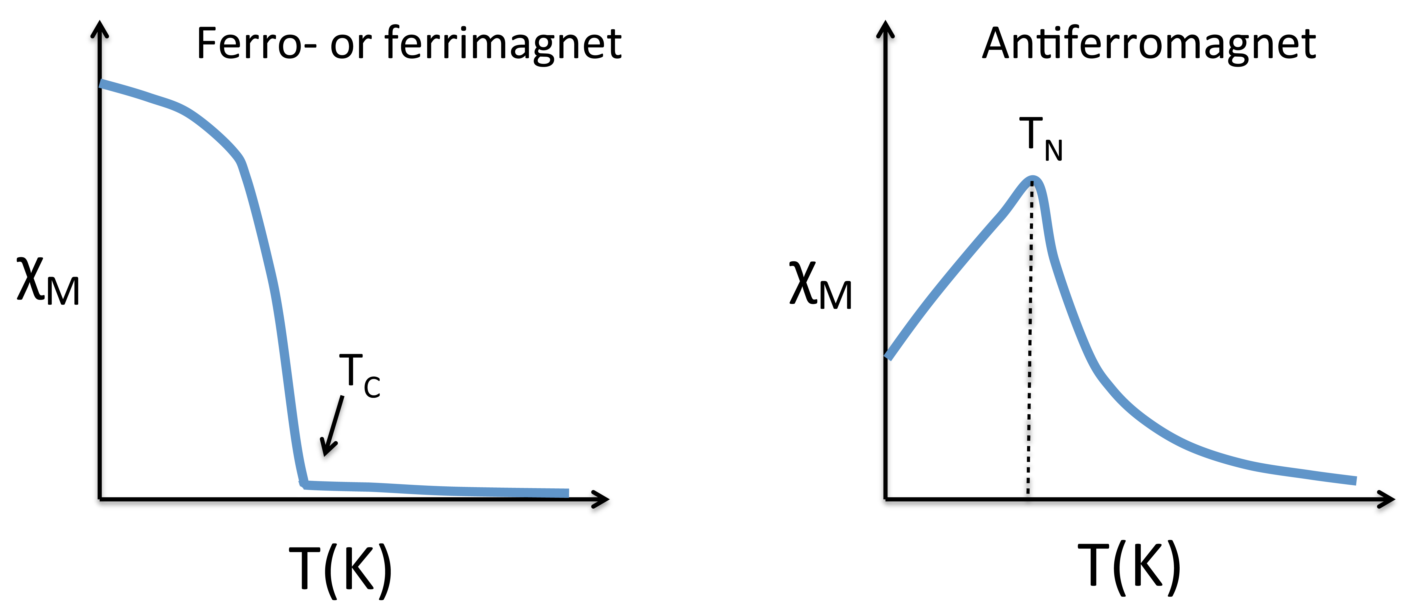 Chi vs T plots for ferro-/ferri- and antiferromagnets